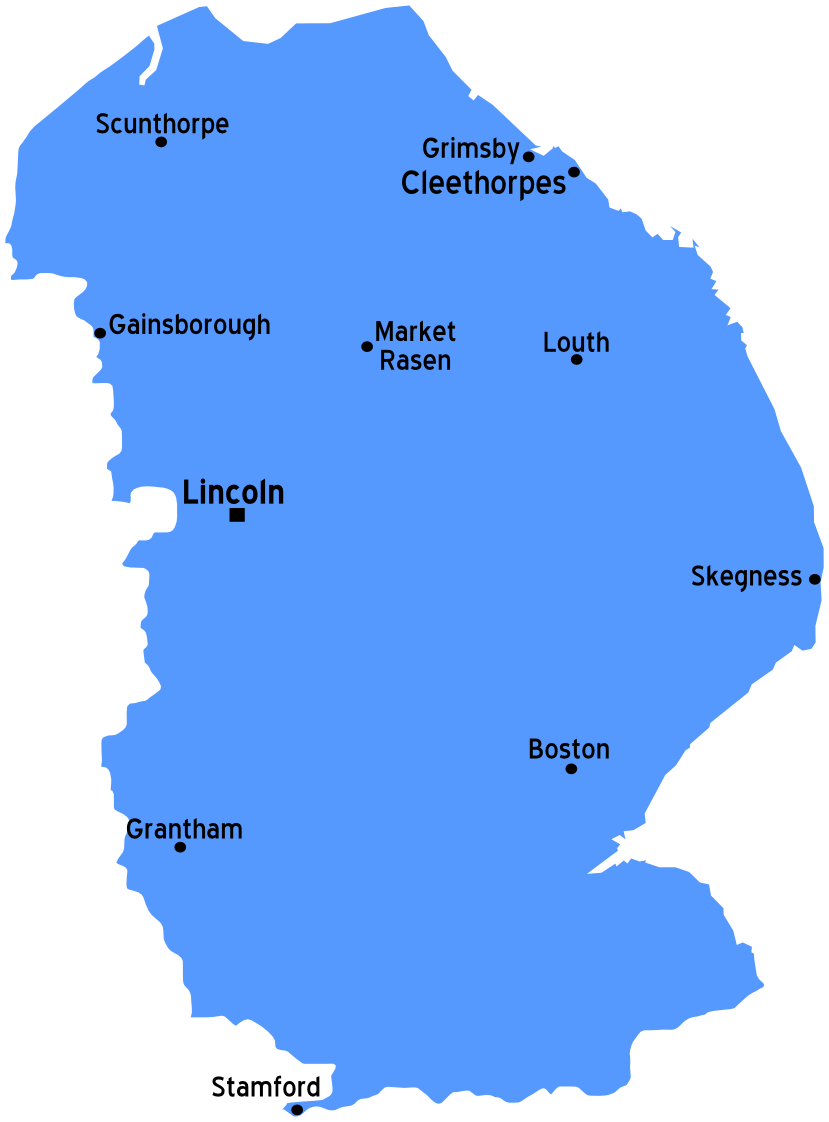 Map of Lincolnshire Source: :Image:UK map.svg map: England Map of: England